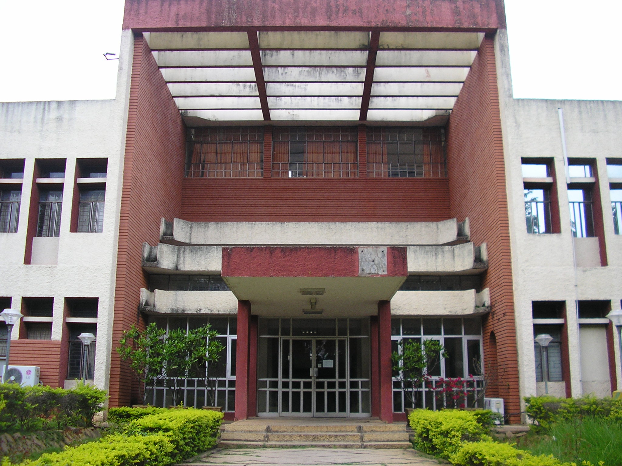 The CEDT departement in the Indian Institute of Science